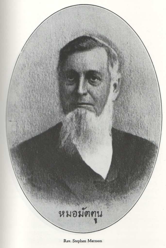 Stephen Mattoon, 19th century Presbyterian missionary to Siam (Thailand)